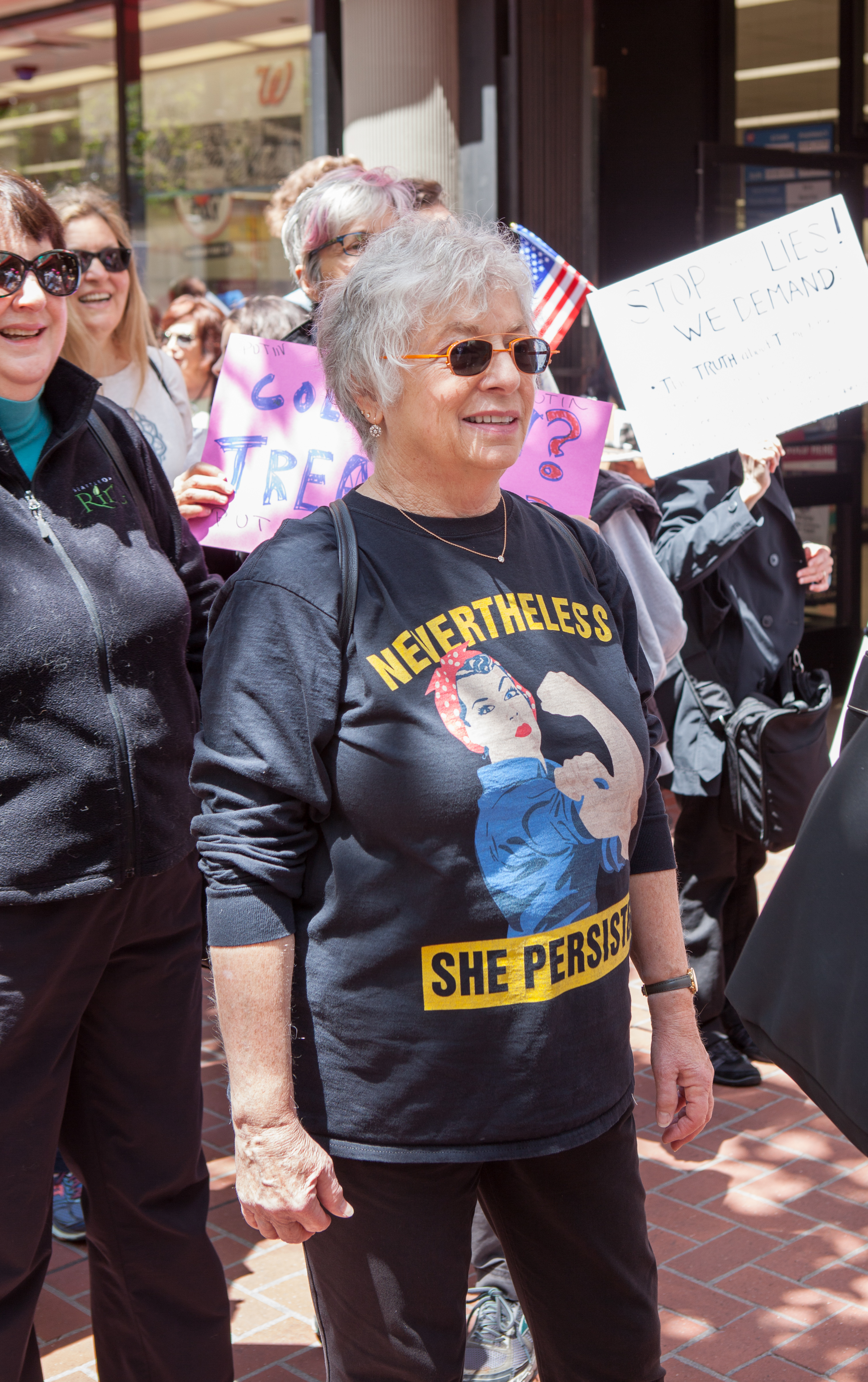 A protester at the Indivisible Flashmob/March for Truth San Francisco wears a sweatshirt with an image of Rosie the Riveter and the words "Nevertheless She Persisted".